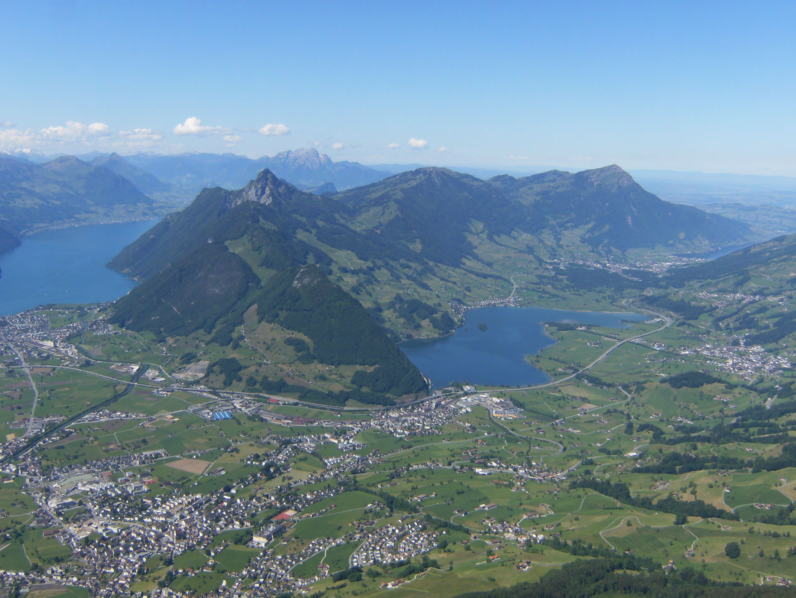 Rigi, lake Lauerzer and Pilatus